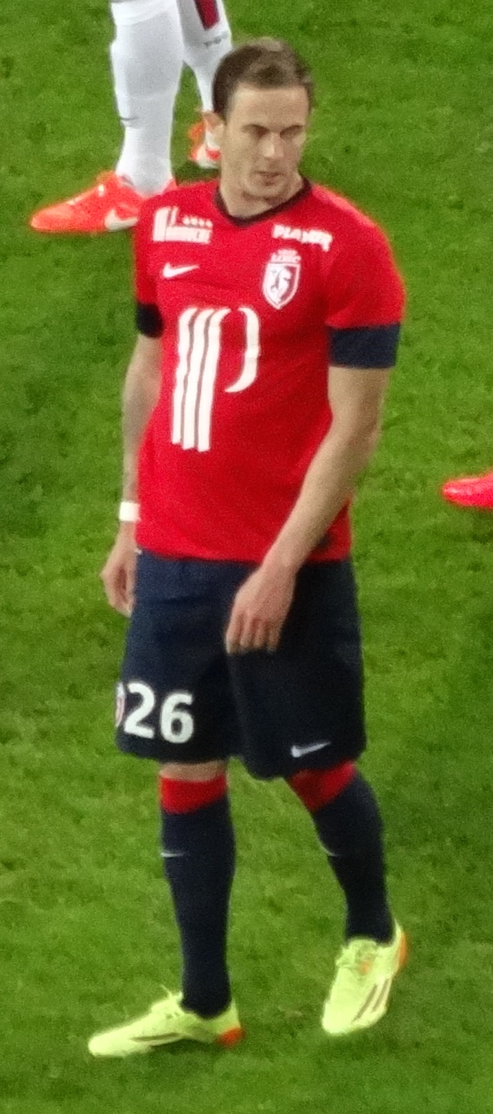 Nolan Roux, LOSC Lille